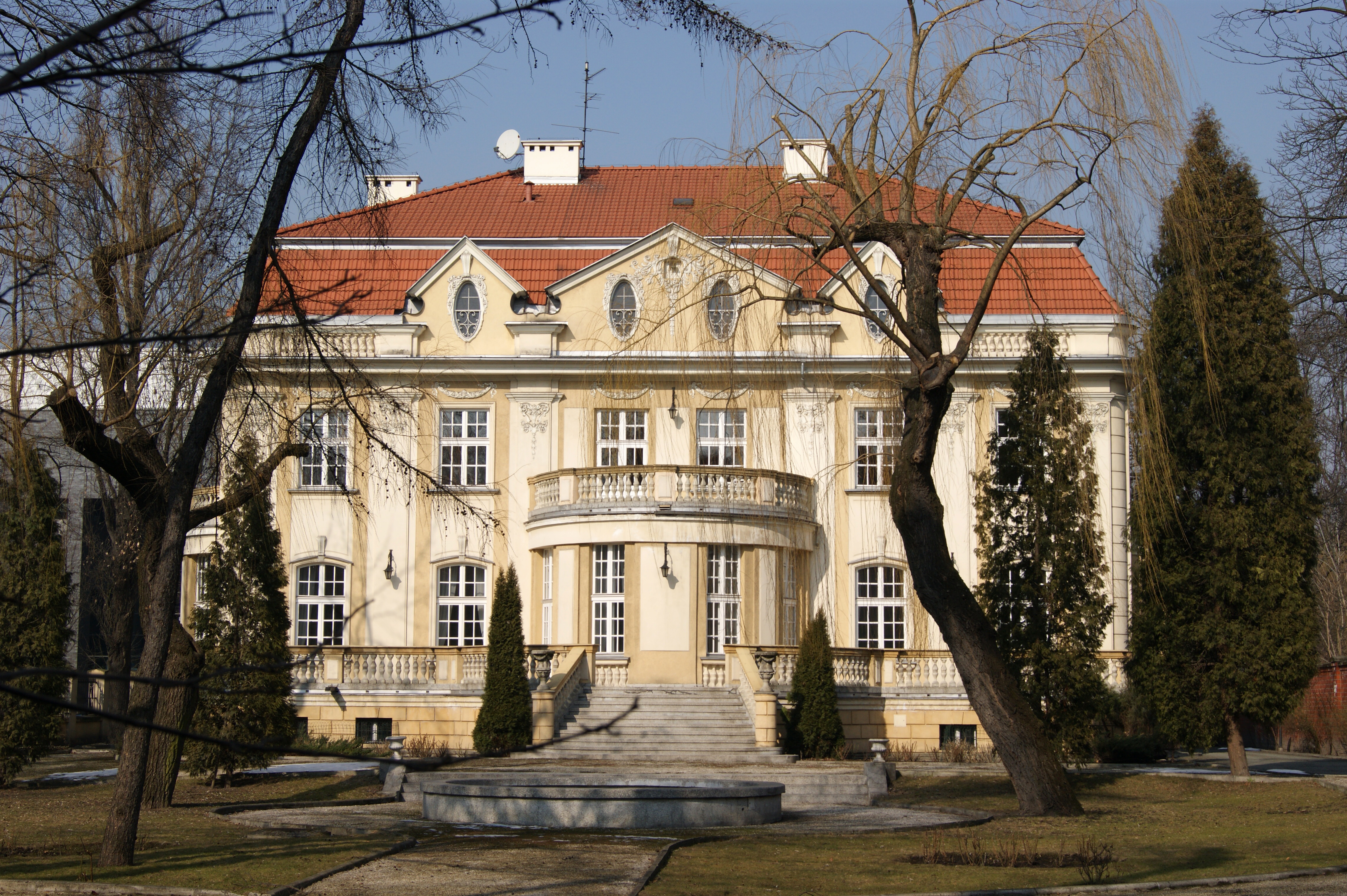 Maria Lewalska Villa, 42 Krupnicza street, Krakow,Poland